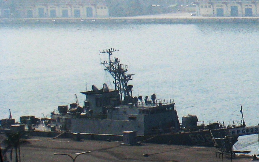 PGG-608 in Port of Keelung.